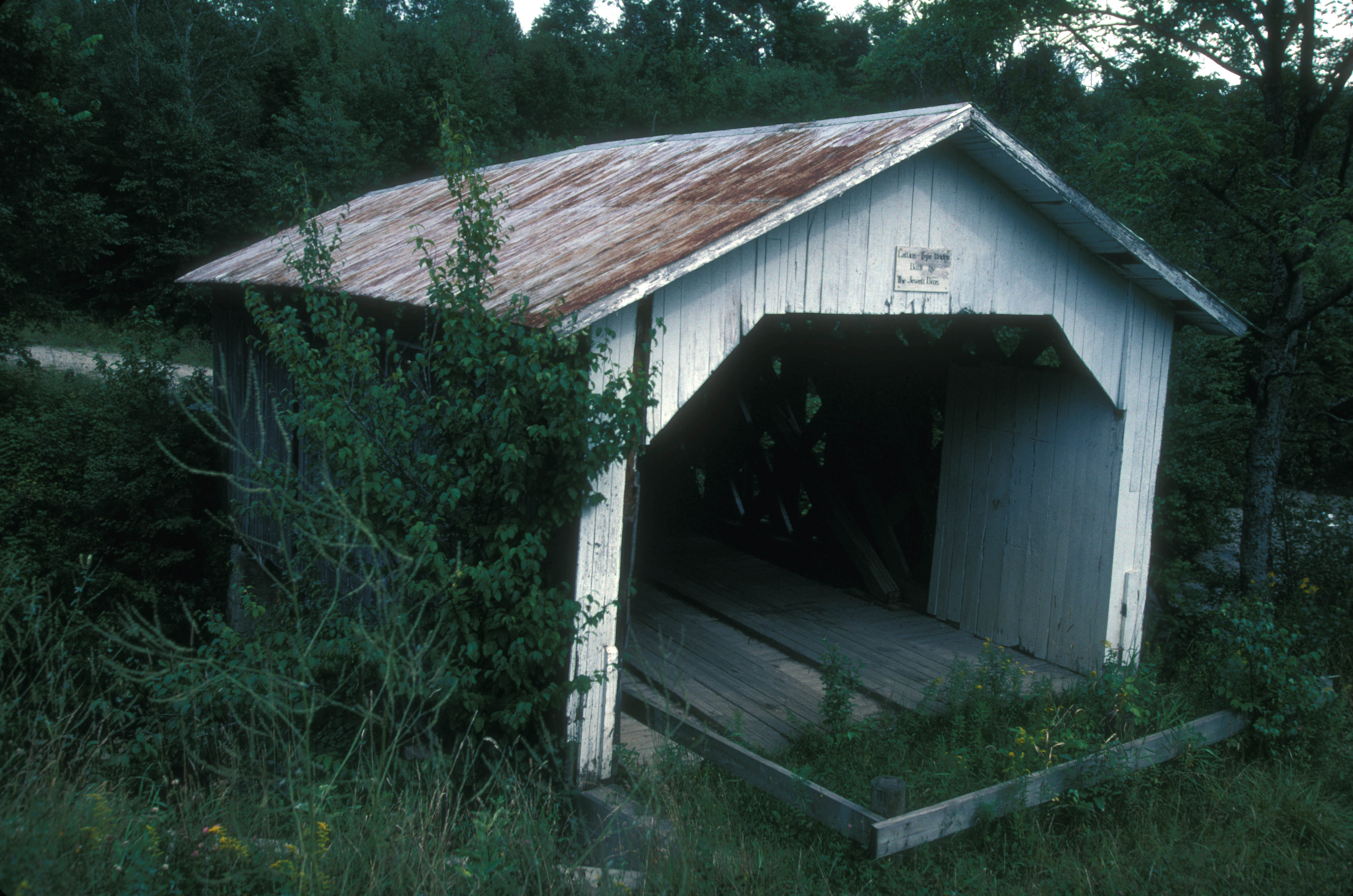 1883; 54’ TOWN & KING OVER SOUTH BRANCH OF TROUT RIVER